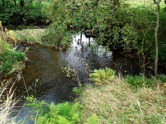 The Meeting of Two Waters. Here the waters of the Luggie (from the left) and Cameron Burn (from the right) meet next to the bridge at Glenhove.